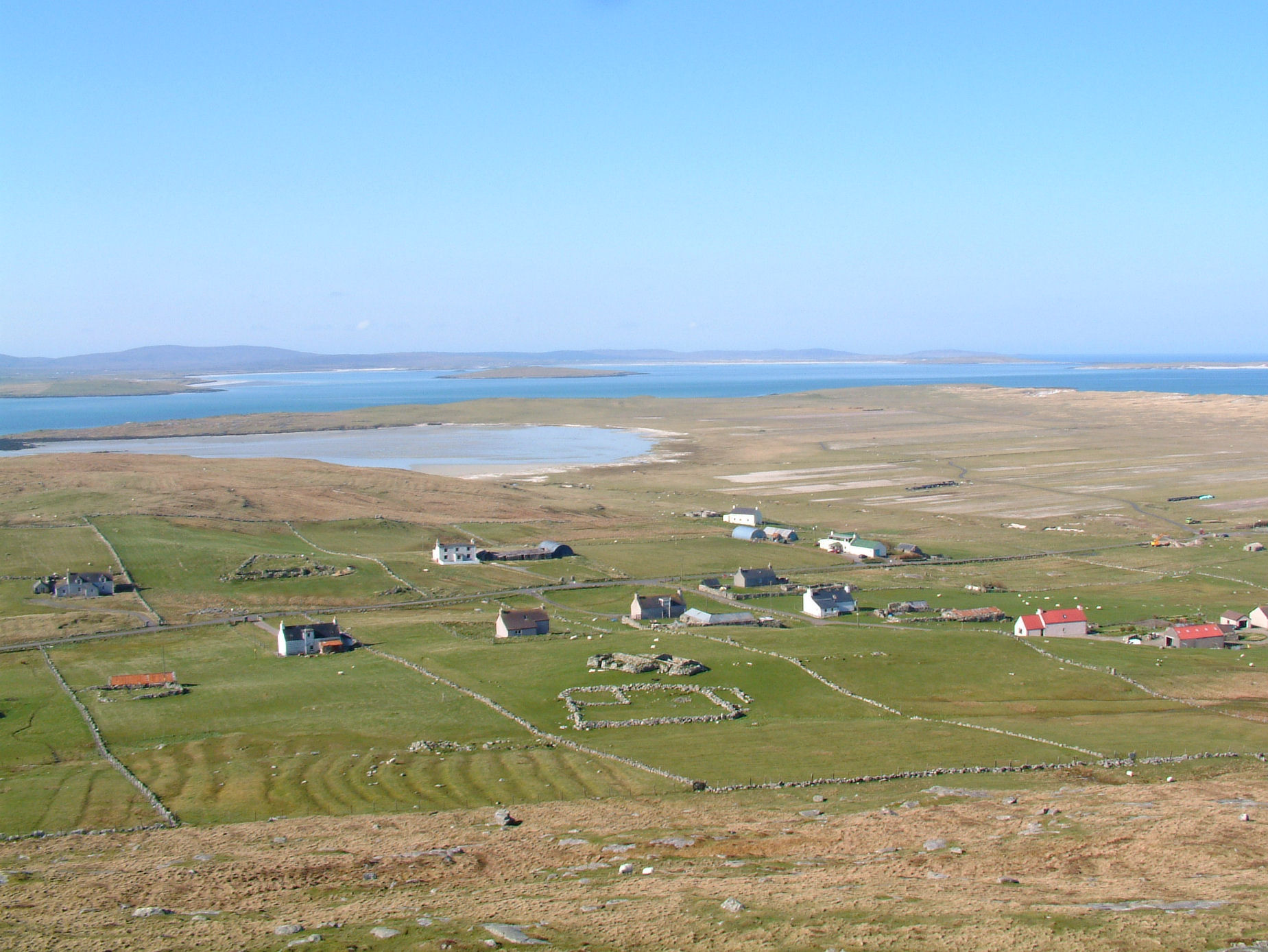 The community of Borve, on Berneray. Beyond the village is the machair, and beyond that the coast and several islands (including North Uist).